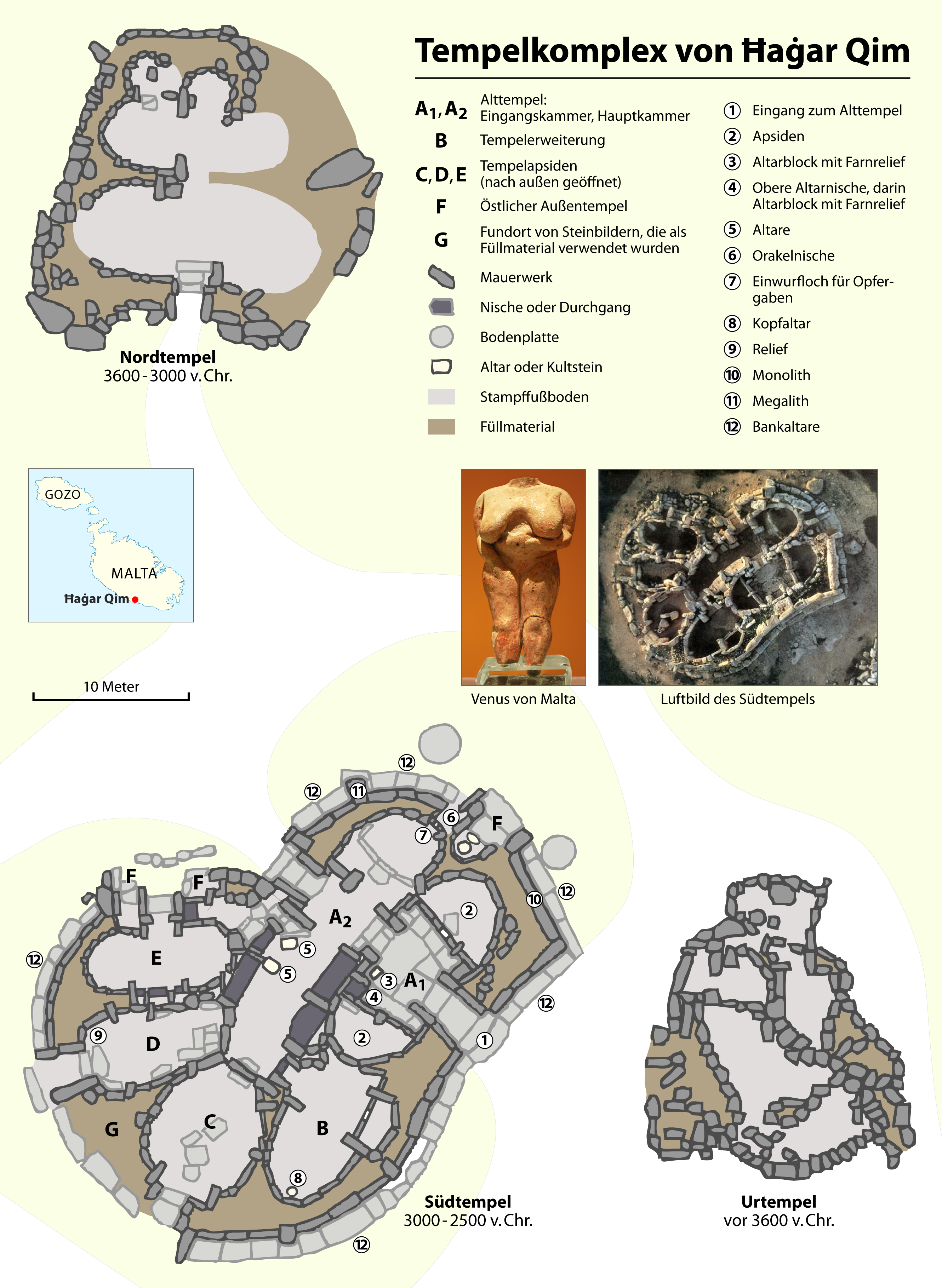 Map of the Hagar Qim temple complex